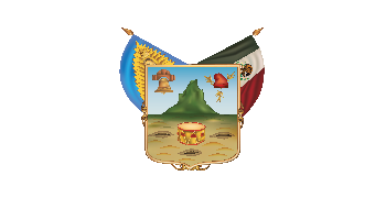 Flag of the State of Hidalgo, Mexico.